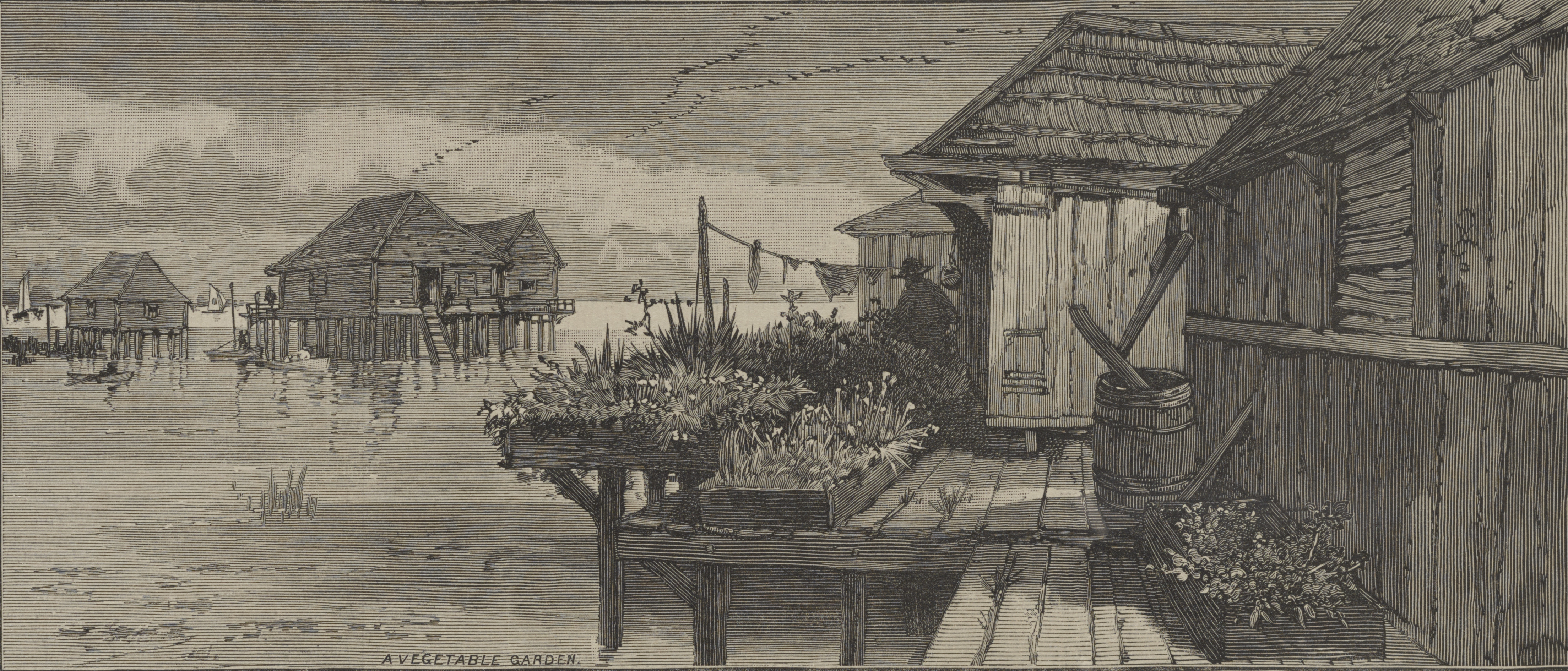 Drawing of St. Malo settlement in St. Bernard Parish, the first permanent Filipino settlement in the United States.